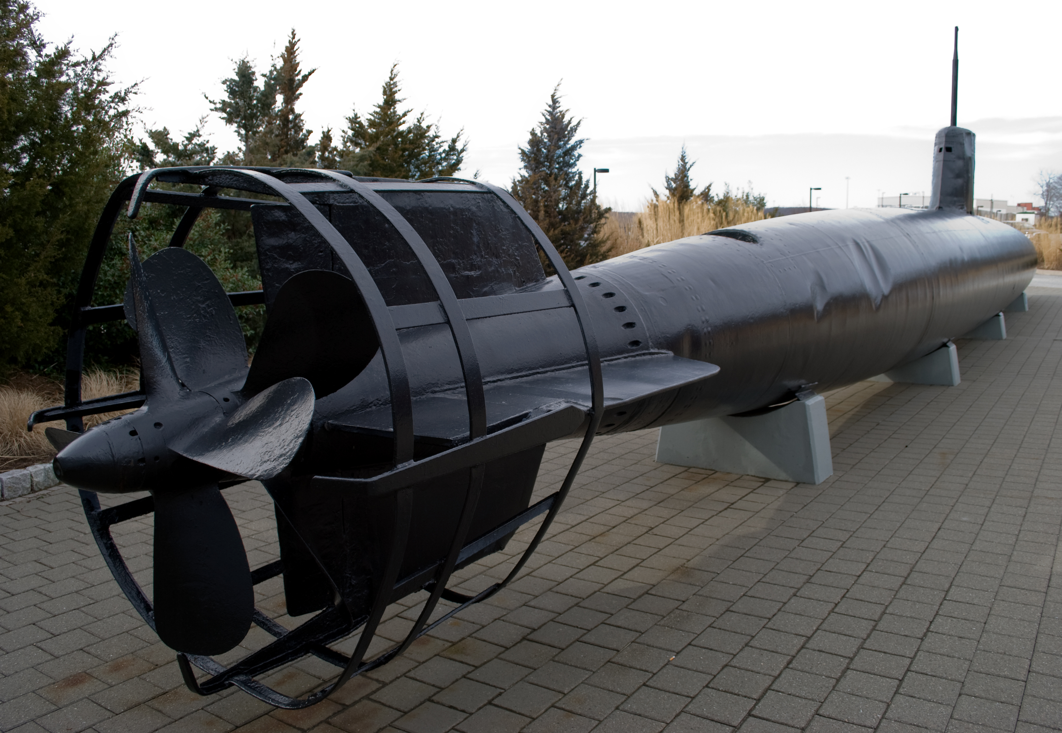 Bow view of Japanese Ko-hyoteki class submarine at the U.S. Navy Submarine Force Museum and Library, Groton CT.